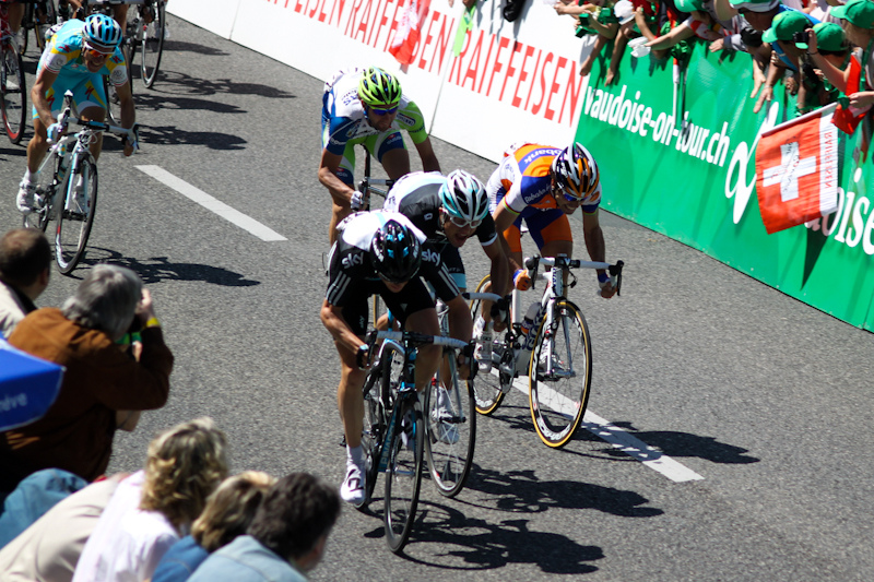 Ben Sprint winning the sprint at the Tour of Romandie